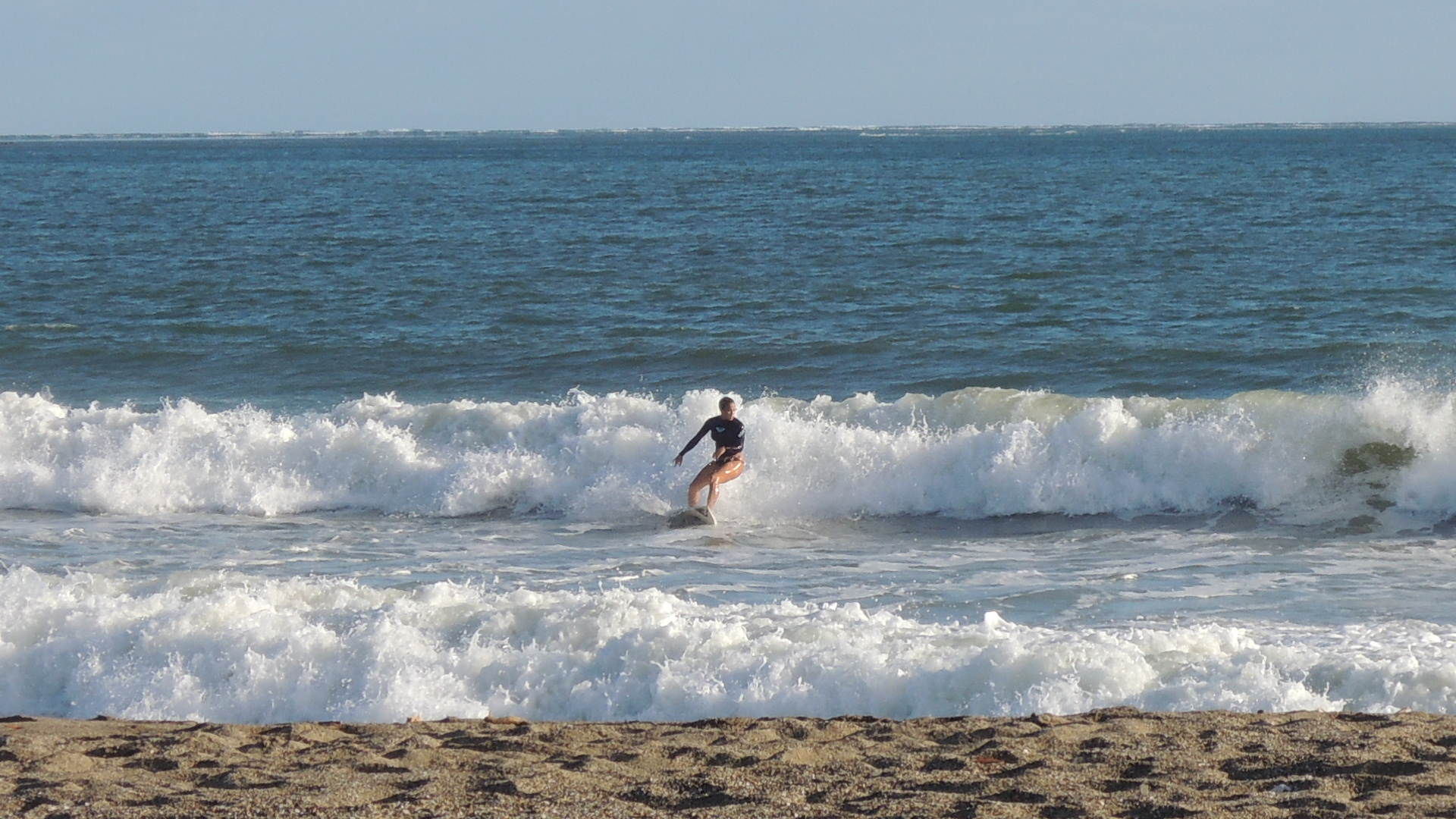 Vague Jenna Cinedrawa